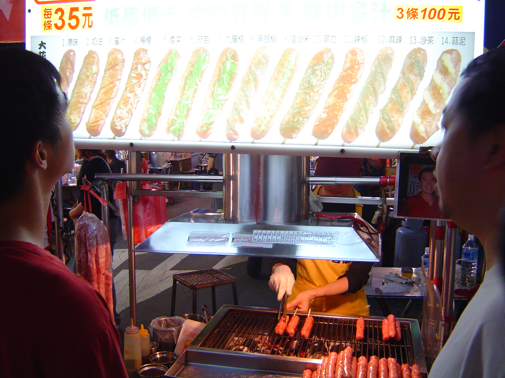 Taiwanese Sausages come in many different flavors as sold at a night market in Taiwan. Flavors as written on the vender menu: original, butter, honey, lemon, cilantro, garlic chives, basil, black pepper, wasabi, feili, red pepper, hot and spicy, satay, minced garlic. Taken in 2004